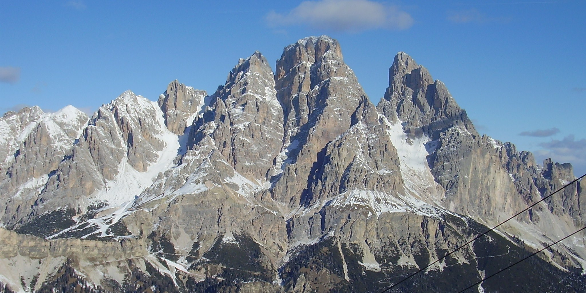 The southern side of Mount Cristallo photographed from Mount Faloria in the Dolomites, Cortina d'Ampezzo, Italy.